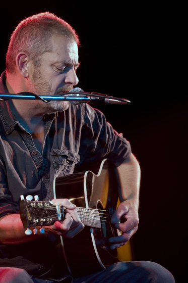 Chris Wilson East Brunswick Social Club, Melbourne, April 2008 See the full gallery - [1]